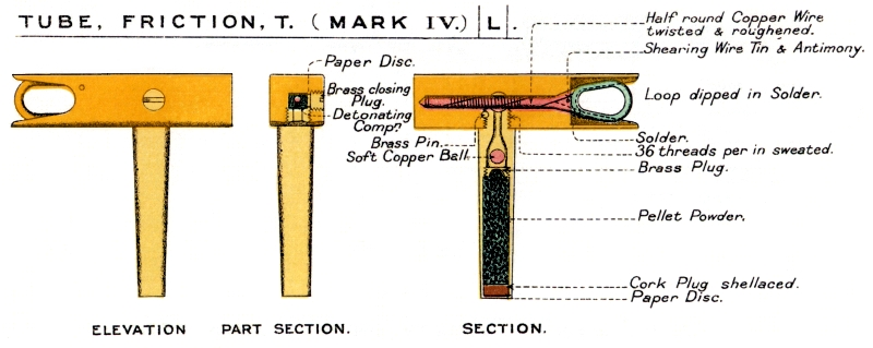 British "T" Friction Tube Mk IV, for BL guns, 1914. Height approx. 1 7/8 inches. T approx 1 7/8 inches. Tube tapering to 1/4 inch. A hole is bored through the side of the head, at right angles to the wire passing through. The hole is filled with detonating composition, surrounding the roughened part of the wire, and the hole is sealed up. Action :- The gunlayer inserts the tube in the breech vent. A lanyard is attached to the loop in the wire in the T. The gunlayer pulls, or extends and "chops down on" the lanyard. The friction wire is pulled through the detonating composition and out of the head, igniting the detonating composition by friction. The flash passes down the small hole in the top of the body, over the copper ball, through the fire-holes in the brass screw-plug, and ignites the powder. The expanding gas forces the copper ball up into the cone seating, sealing the vent on the inside of the tube, and expands the tube body, sealing the vent outside the tube. Used with :- BL 12 pounder 6 cwt Gun BL 15 pounder Gun BL 2.75 inch Mountain Gun BL 5 inch Howitzer BL 5.4 inch Howitzer BL 6 inch 30 cwt Howitzer